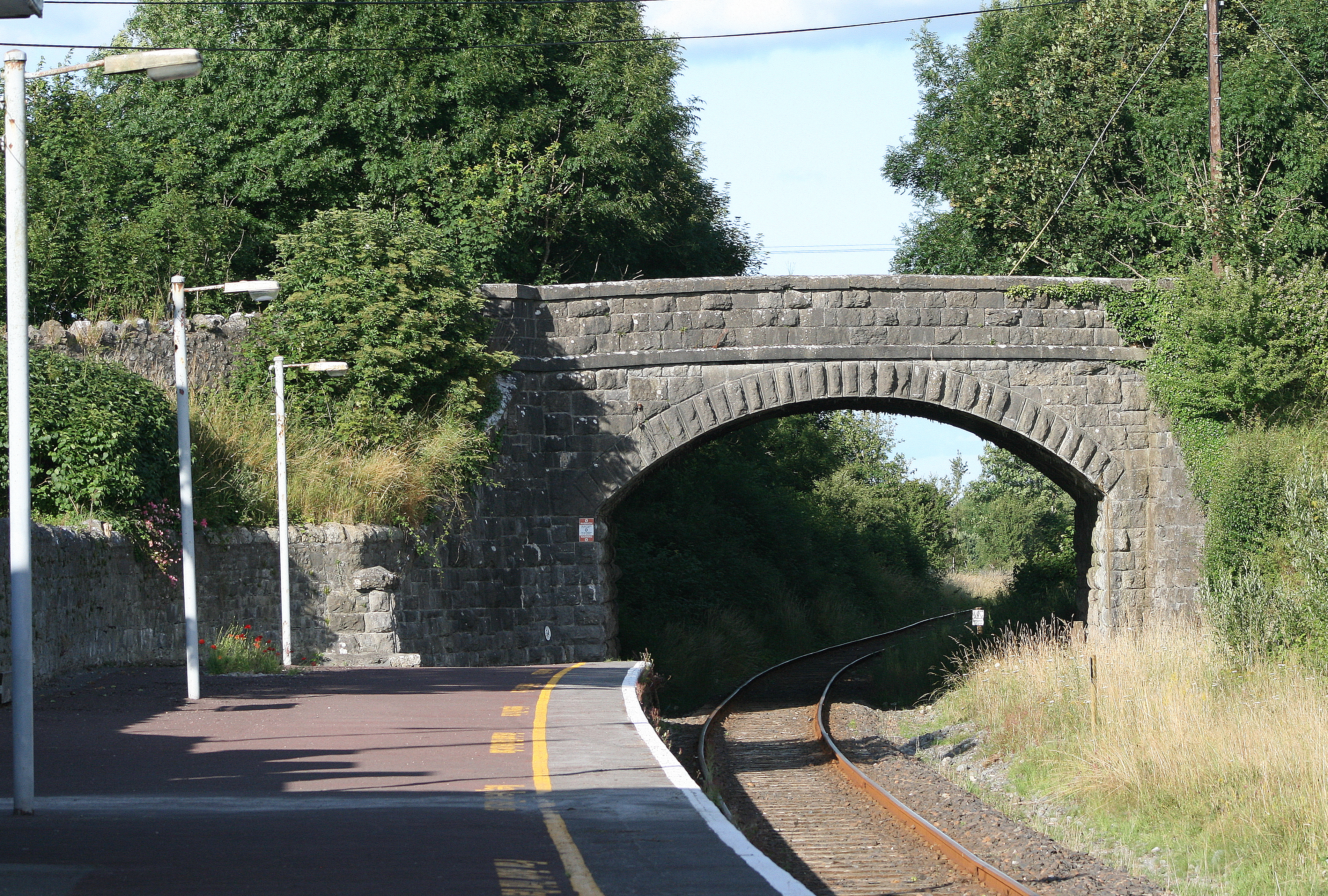 Cloughjordon railway station, with the R490 road crossing the line.